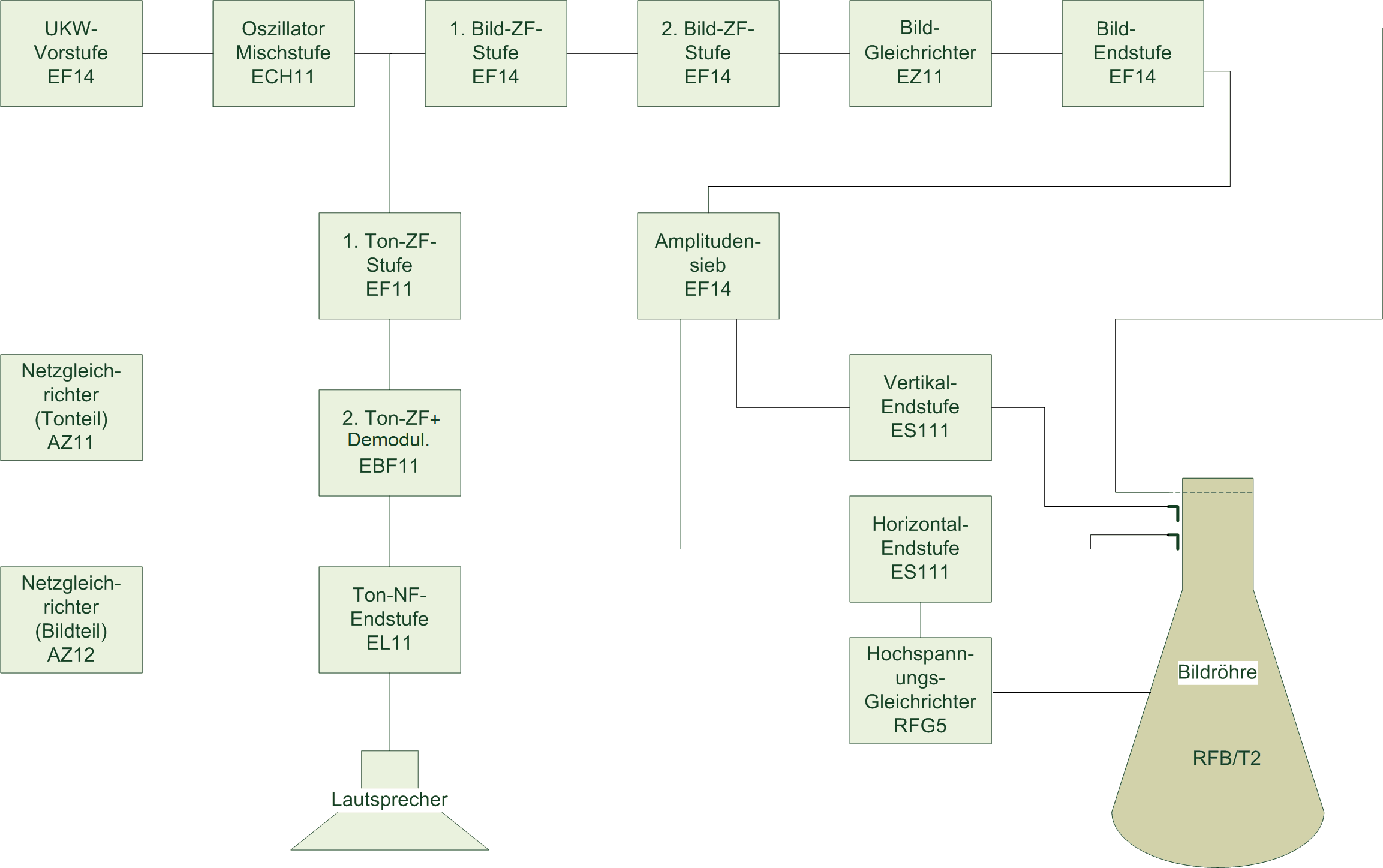 Block diagram of the german Einheits-Fernseh-Empfänger E1 (1939)